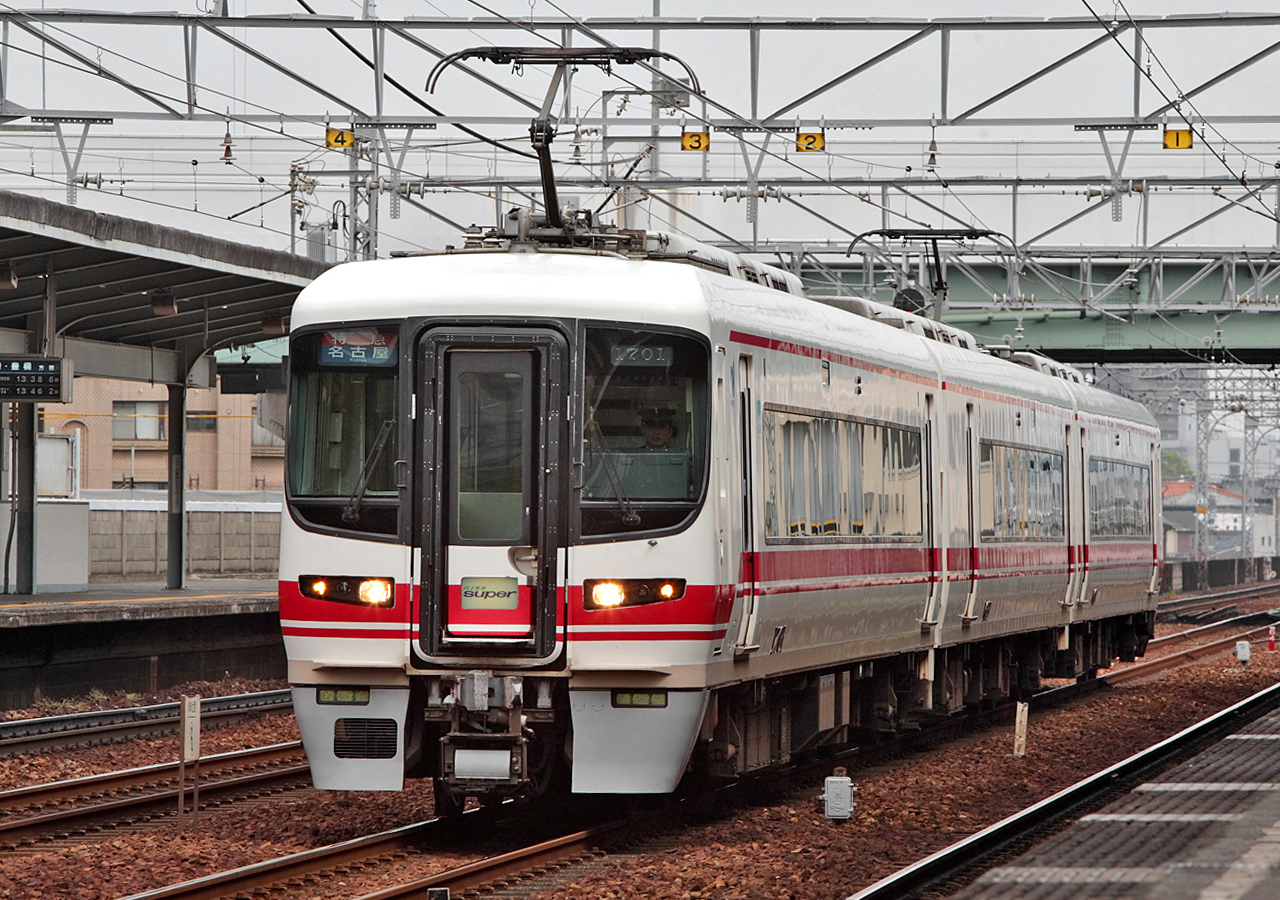 Meitetsu 1600 series "Panorama Super" EMU set 1601 at Horita Station.